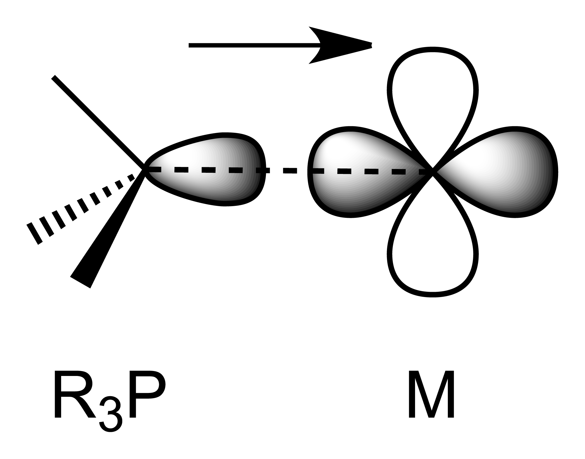 Molecular orbital diagram of the sigma bonding in metal-phosphine complexes, R3P–M. Based on diagrams in A. G. Orpen, N. G. Connelly, Organometallics (1990) 9, 1206–1210. Image generated in ChemBioDraw Ultra 12.0.